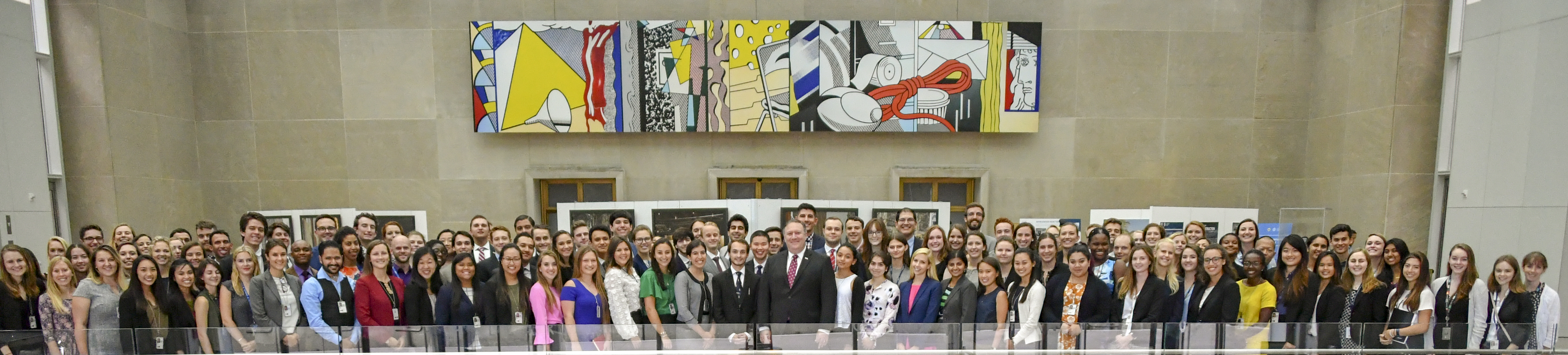 Secretary Michael R. Pompeo meets with Department of State Summer Interns, at the Department of State.